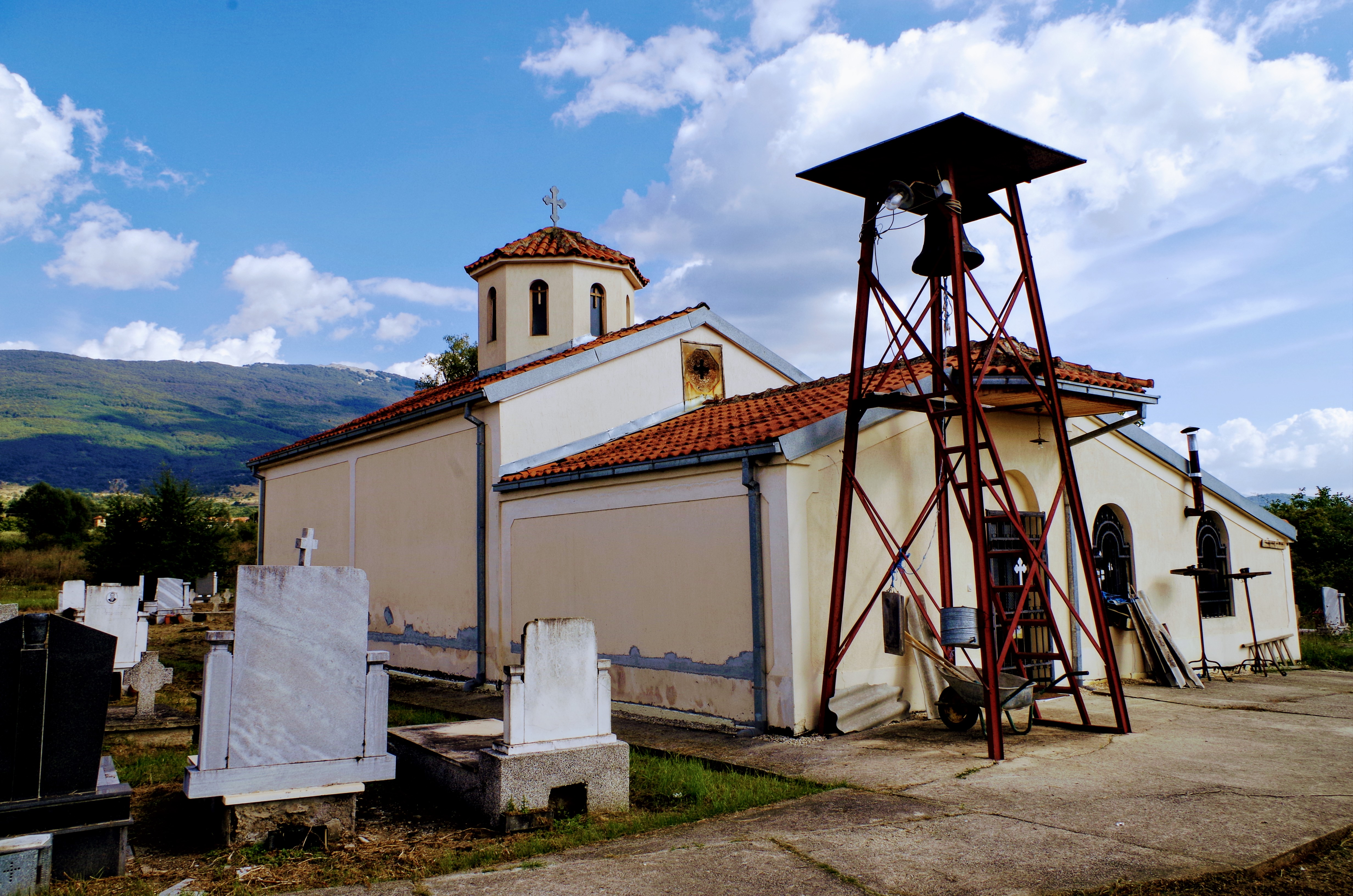 View of the village Podmočani